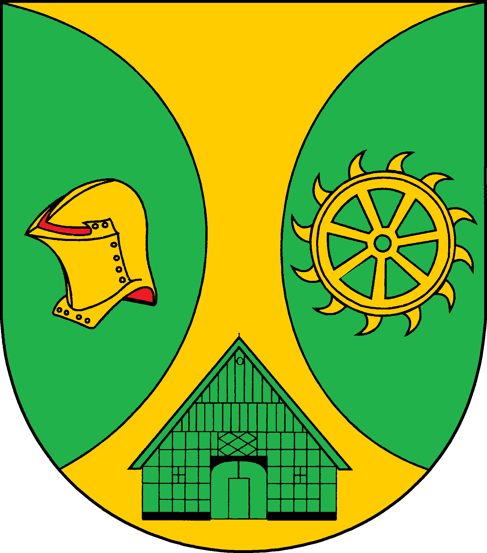 Coat of arms of the municipality Schmalstede in Schleswig-Holstein, Germany.